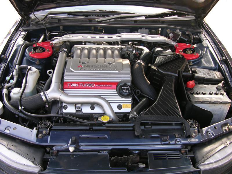 Mitsubishi Galant VR-4 Engine Bay (Jason Kench